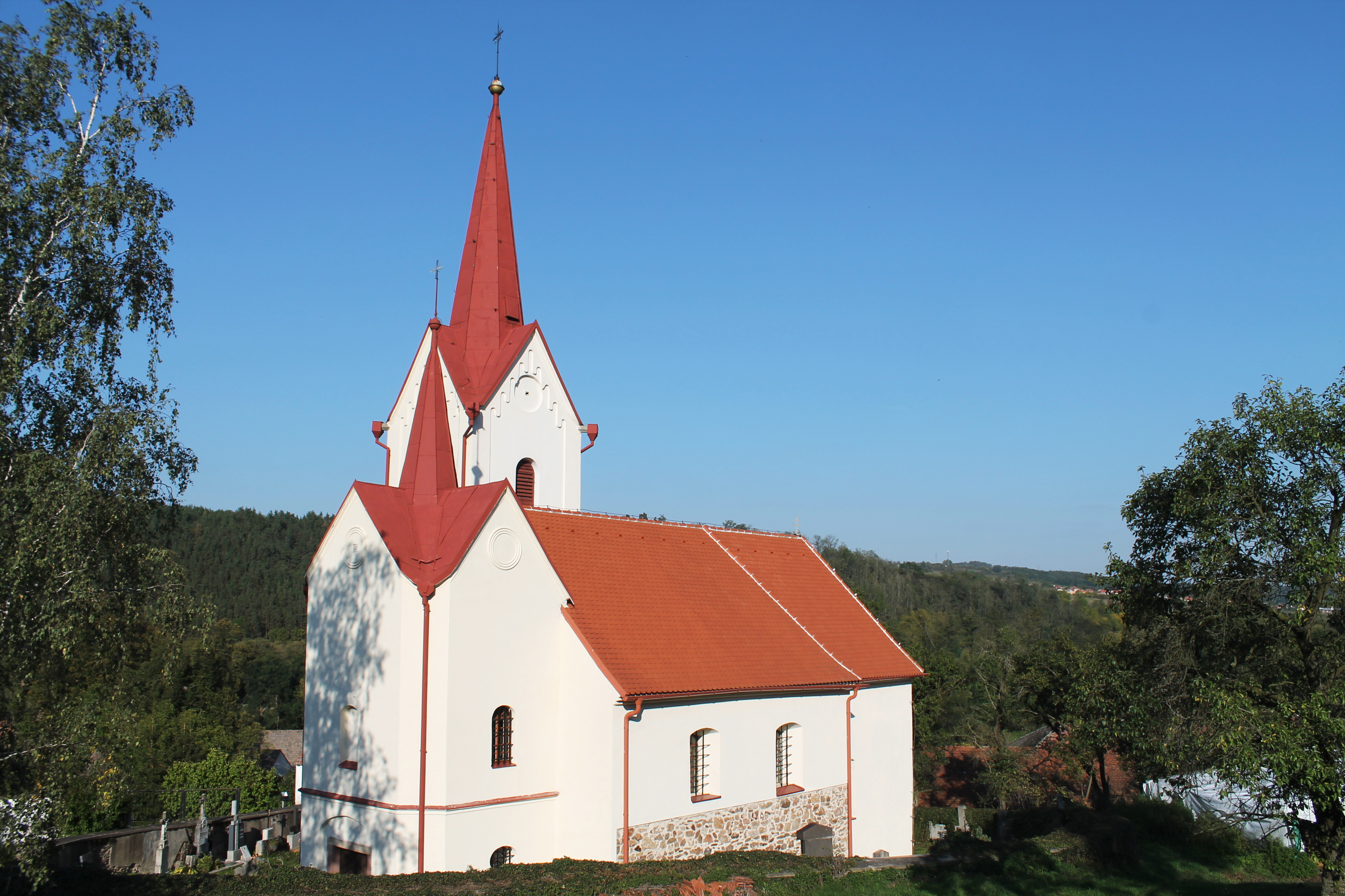 Church of Saint Giles, Újezd u Tišnova, Brno-Country District, Czech Republic